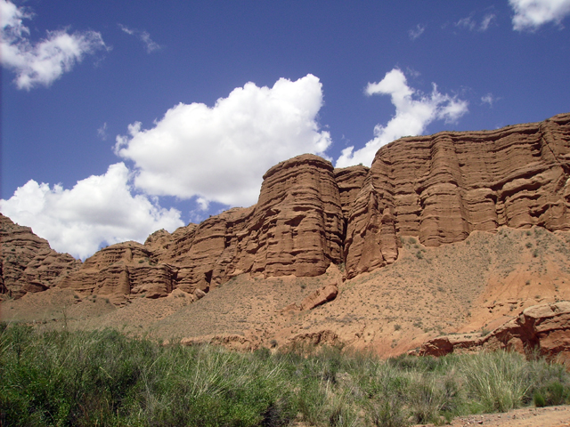 Suluu-Terek Canyons